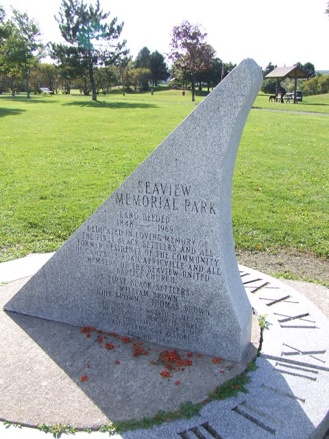 Africville Monument looking west, Seaview Memorial Park, Halifax, Nova Scotia